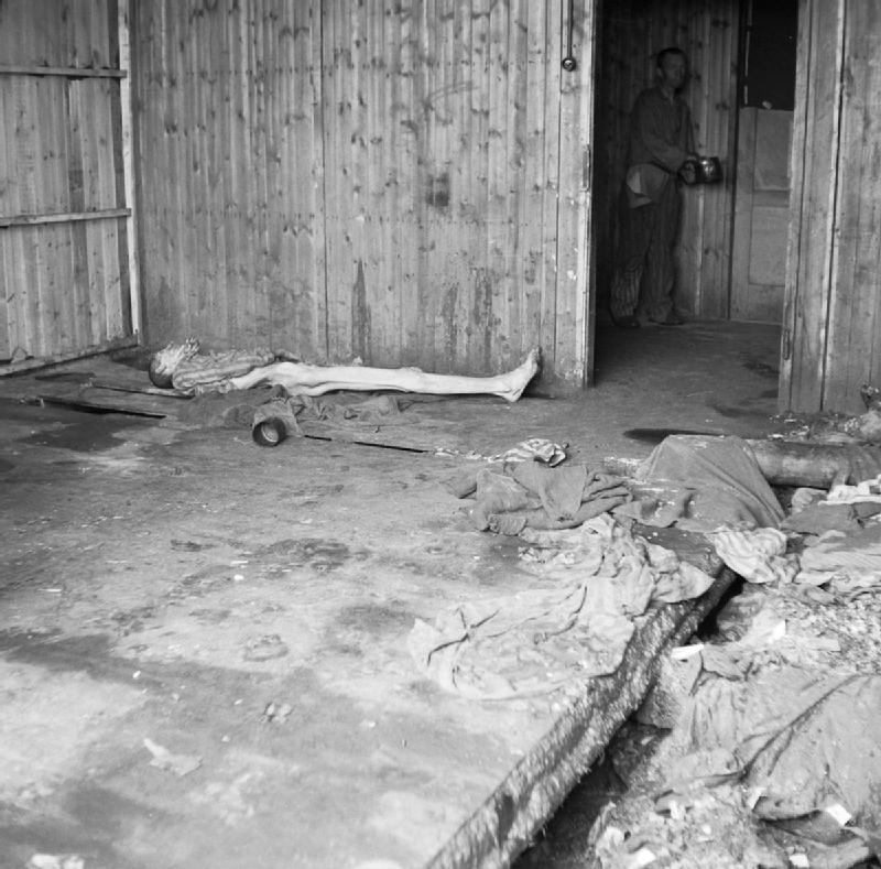 The Liberation of Sandbostel Concentration Camp, April 1945 The interior of a hut after evacuation. An emaciated corpse partially clad in the striped concentration camp uniform lies in the corner.